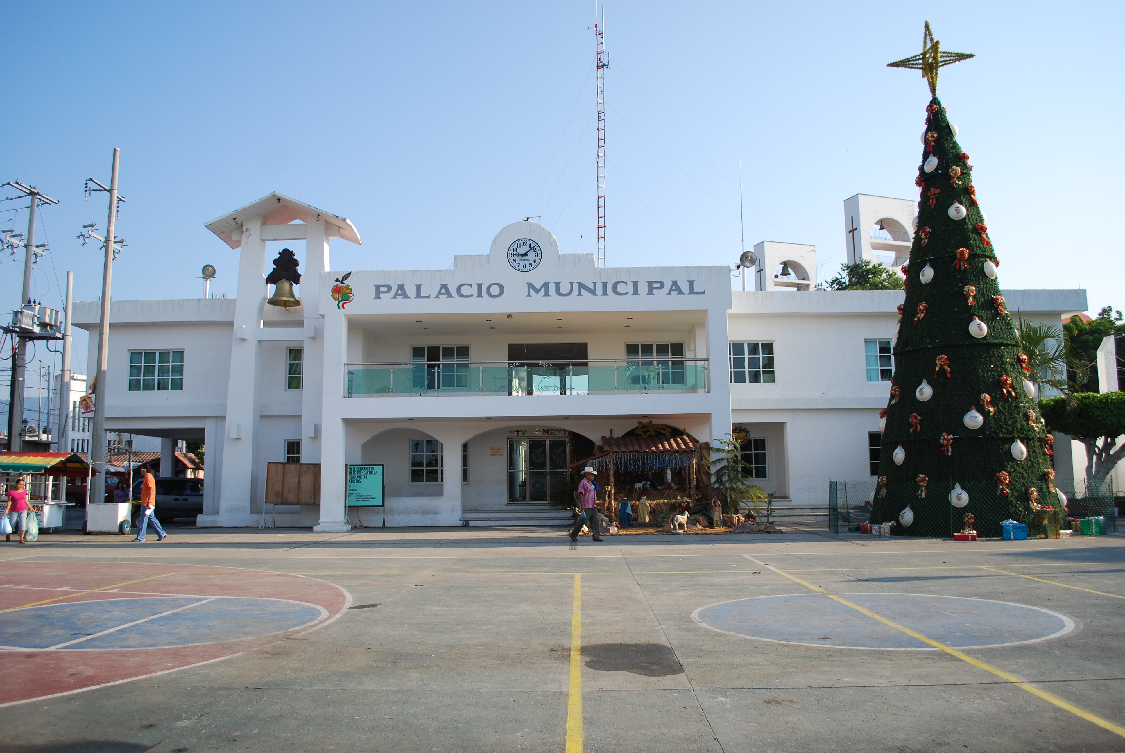 Municipal palace of Petatlán, Guerrero, Mexico